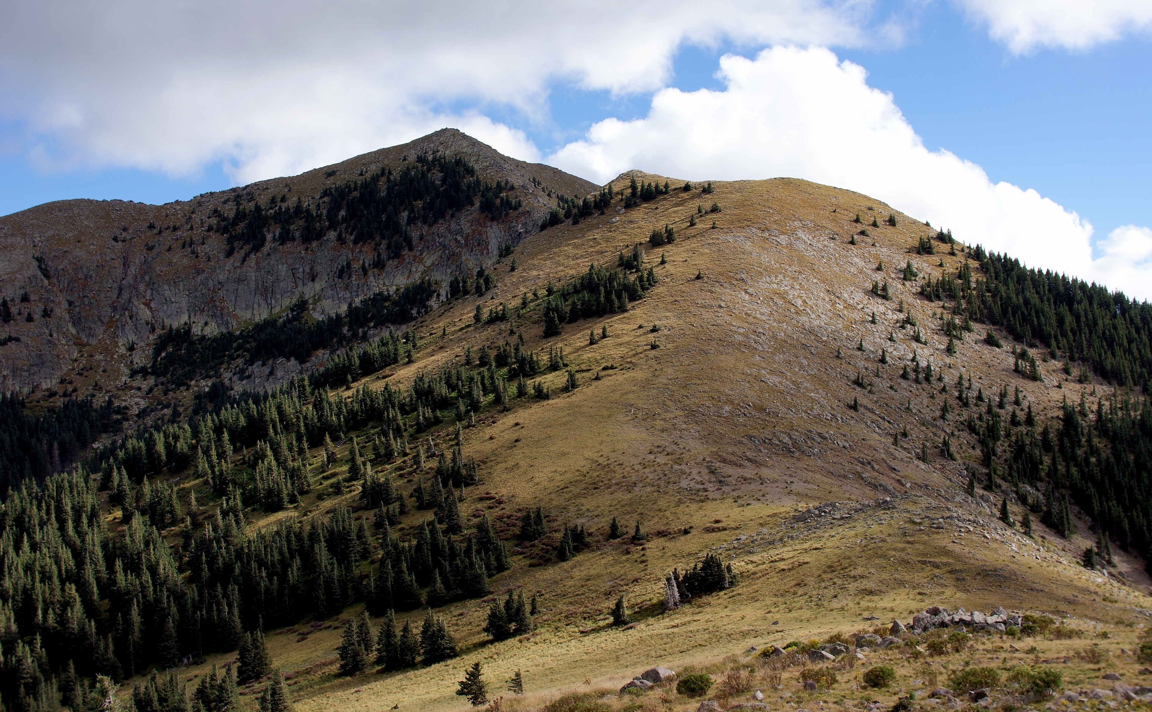 At the top of Ski Apache's boundary, Sierra Blanca Peak looks as if it is within easy reach. There are only some 500 ft of elevation to gain, and while there is no obvious path, the route looked straightforward across some ridges. The elevation at this point is some 11,500 ft. It was a tad cold and windy, and definitely too tired, I saved the final trek up for another day.